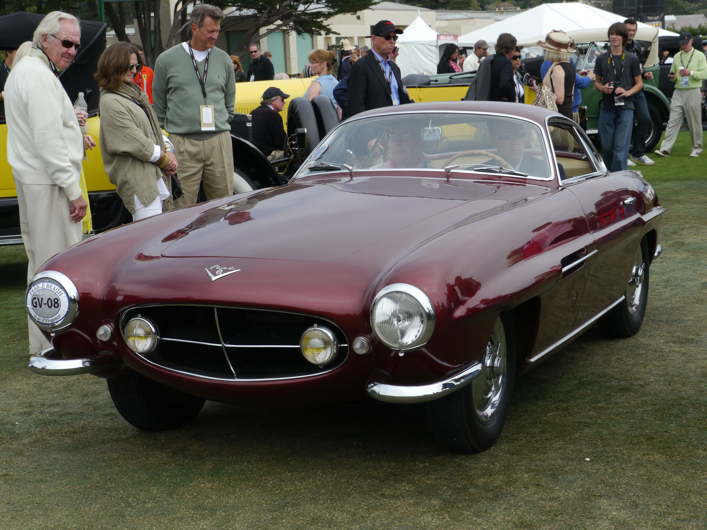 An 1953 Fiat 8V Ghia Supersonic at the Grand Concours in Pebble Beach, California.